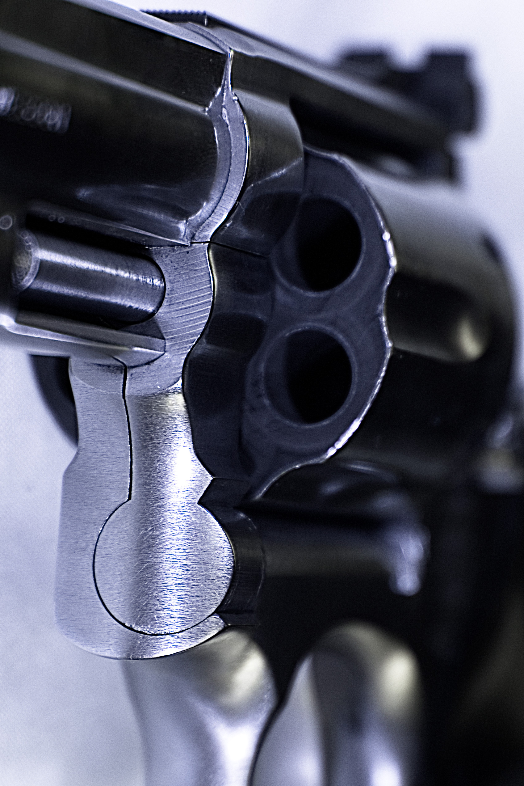 Smith & Wesson 686 6" .357 Magnum, close-up of cylinder